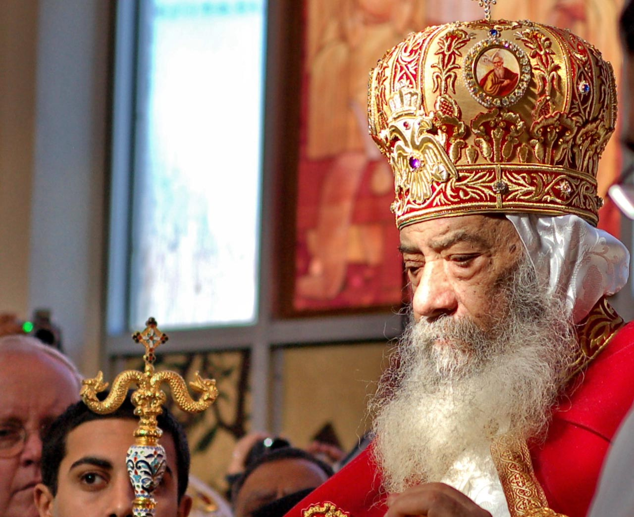 H.H. Pope Shenouda III the patriarch of Alexanderia during the consecration of St. Mary and St. George Coptic Church in Staten Island, NY on February August 12, 2007. Taken by Michael Sleman of Hope Pictures LLC .